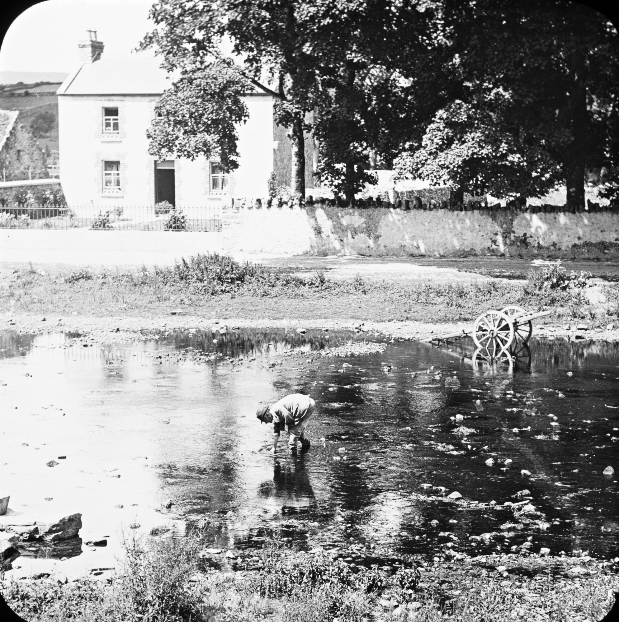 Today Mason takes us to a place beloved of the 1916 leader, Padraig Pearse! Oughterard or Uachtar Ard in the Connemara region of County Galway. He captures an image of a man pearl fishing - with the duet from the "Pearl Fishers" by Bizet ringing in our ears. A lovely scene but how did he know he was fishing for pearls and is the house still standing? For the full effect, consider listening to this while looking at the shot... With thanks in particular to [/photos/20727502@N00/ guliolopez] and [/photos/91549360@N03/ O Mac] it seems very likely that the house is still standing (though extended since). There's a strong suggestion that this house is just east and downstream of the main road bridge across the Owenriff River in Oughterard. Though perhaps not 100% confirmed, it seems a strong enough contender for us to map this image to the suggested location.... Photographer: Thomas H. Mason Collection: Mason Photographic Collection Date: ca. 1890-1910 NLI Ref: M4/10 You can also view this image, and many thousands of others, on the NLI’s catalogue at